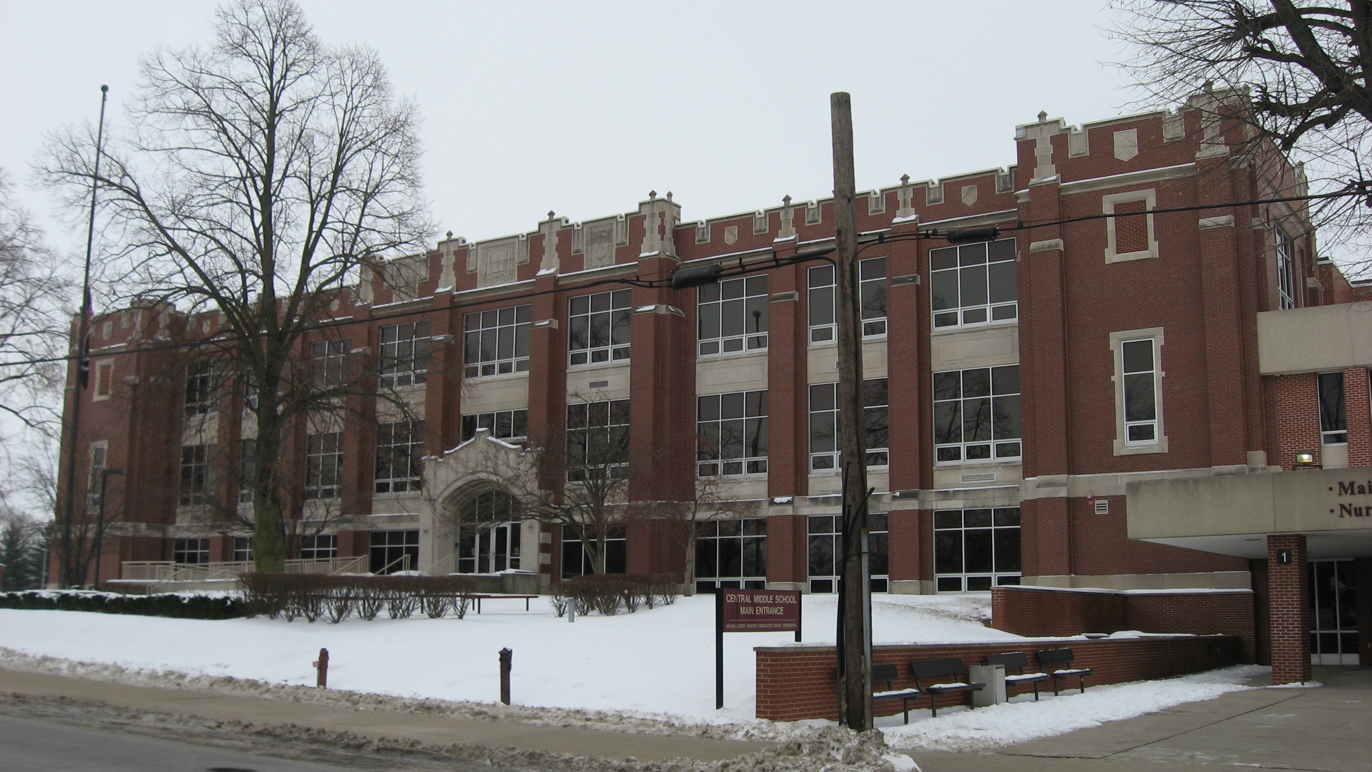 Front of the former Kokomo High School (now Central Middle School), located at 303 E. Superior Street in Kokomo, Indiana, United States. Built in 1917, it is listed on the National Register of Historic Places.